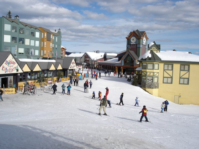 Village at Big White Ski Resort, Canadabig white village